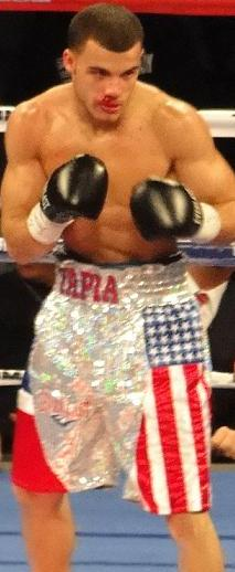 Glen Tapia at the Madison Square Garden in 2011 when he had no tattoos on his right arm.